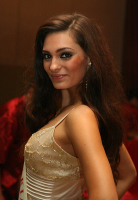 Miss Slovakia 2007 Veronika Husárová in Miss World 07, Sanya, China